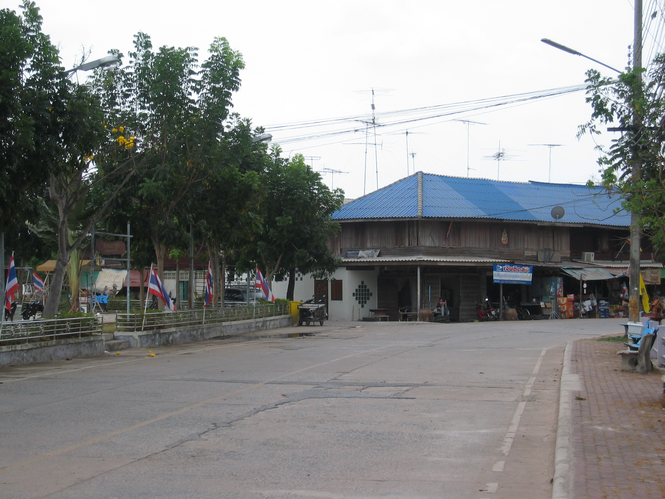 Moo Tachan village